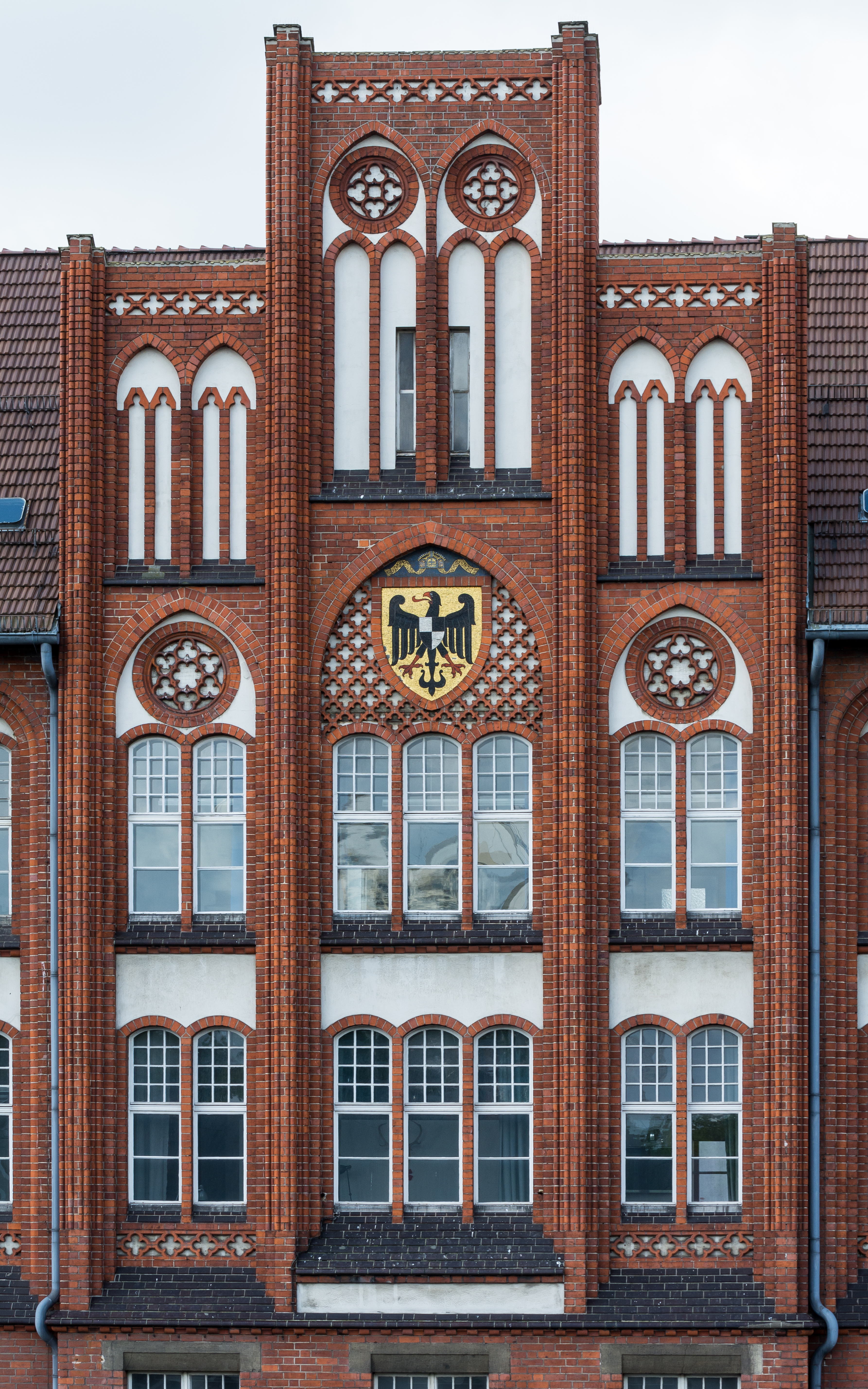 Gable of post office building SW 61 in Berlin. This is a photograph of an architectural monument.